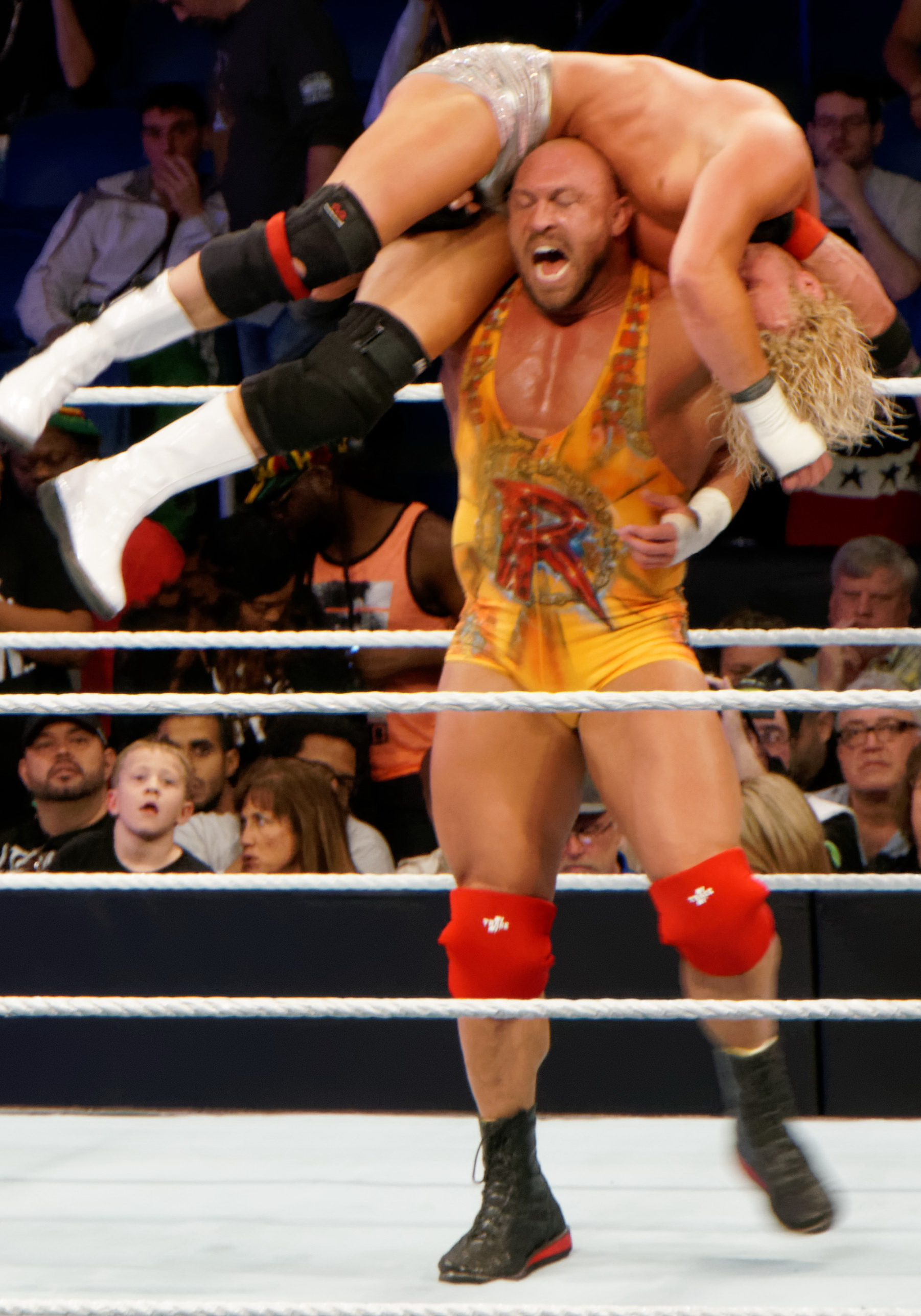 Ryback hoists Dolph Ziggler on his shoulders to deliver his finishing maneuver Shell Shocked during the April 7, 2014 episode of WWE Raw. Slight top crop.